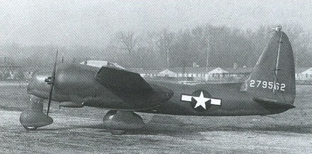 Fleetwings XBQ-2A assault drone.